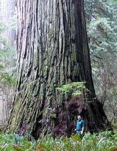 'Del Norte Titan' Coast Redwood tree, California